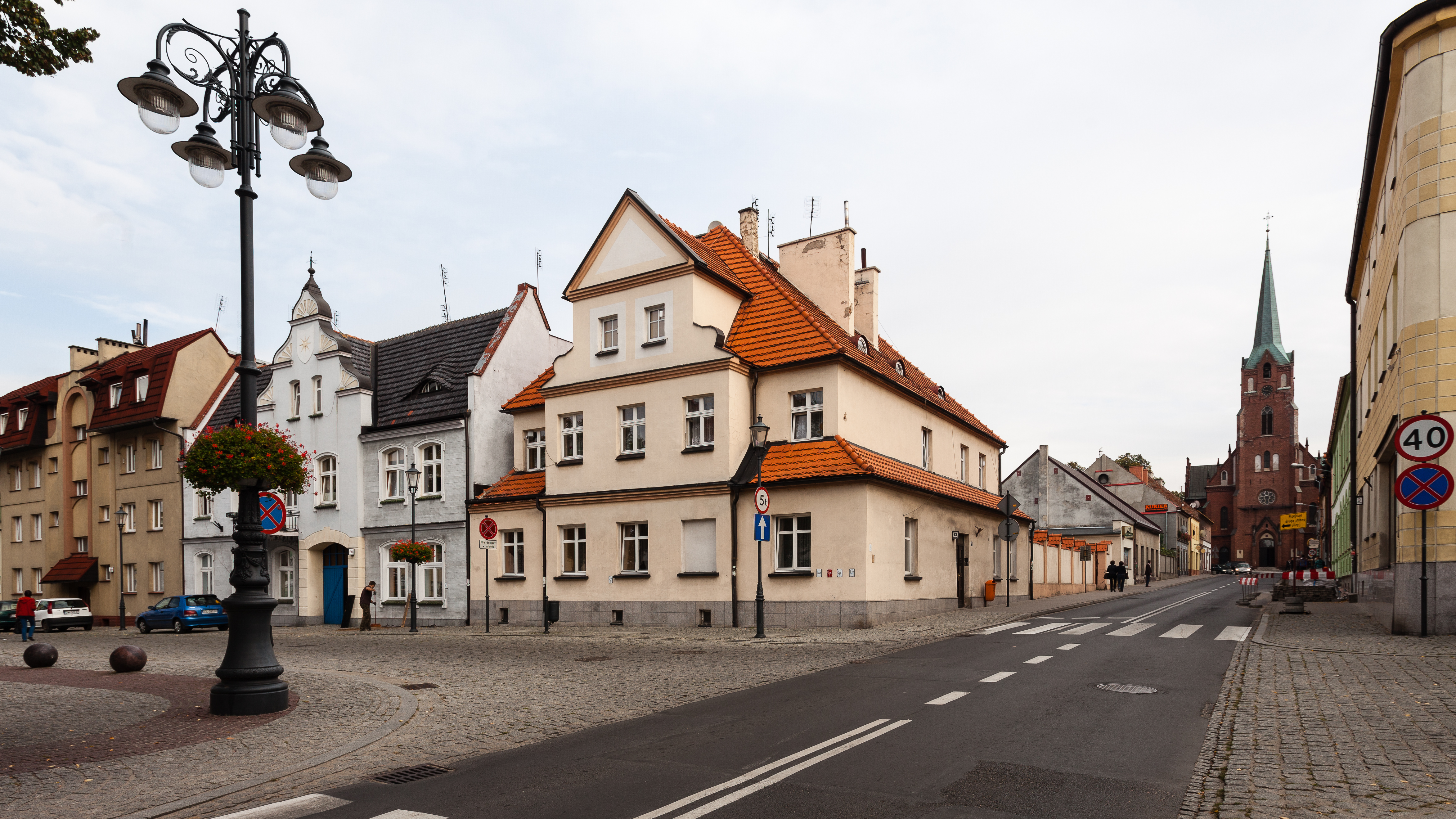 12 Ratuszowa St.,21 Rynek, Twardogóra, Poland